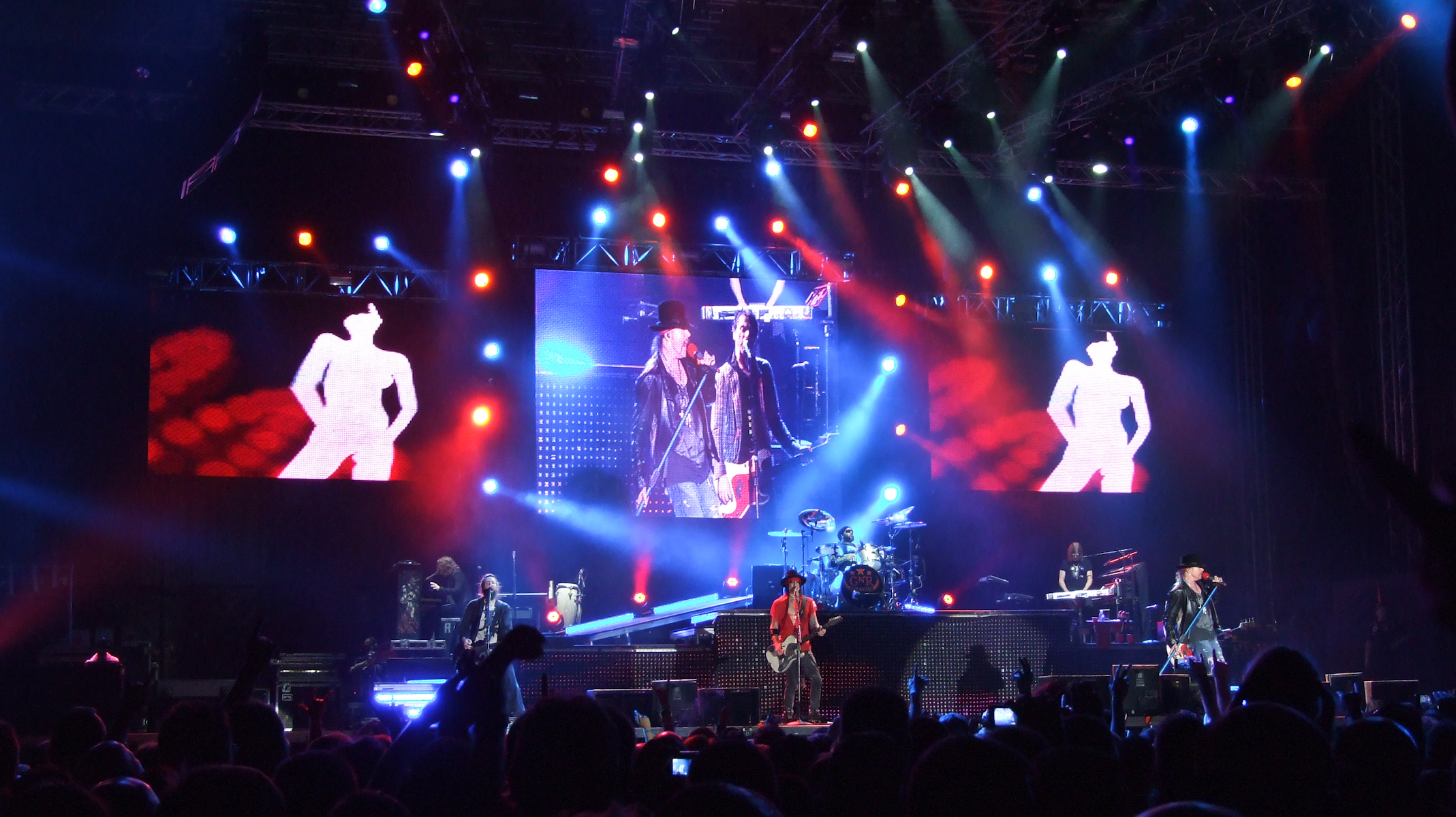 The American hard rock band Guns N' Roses at Sofia Rocks Fest 2012, Bulgaria.